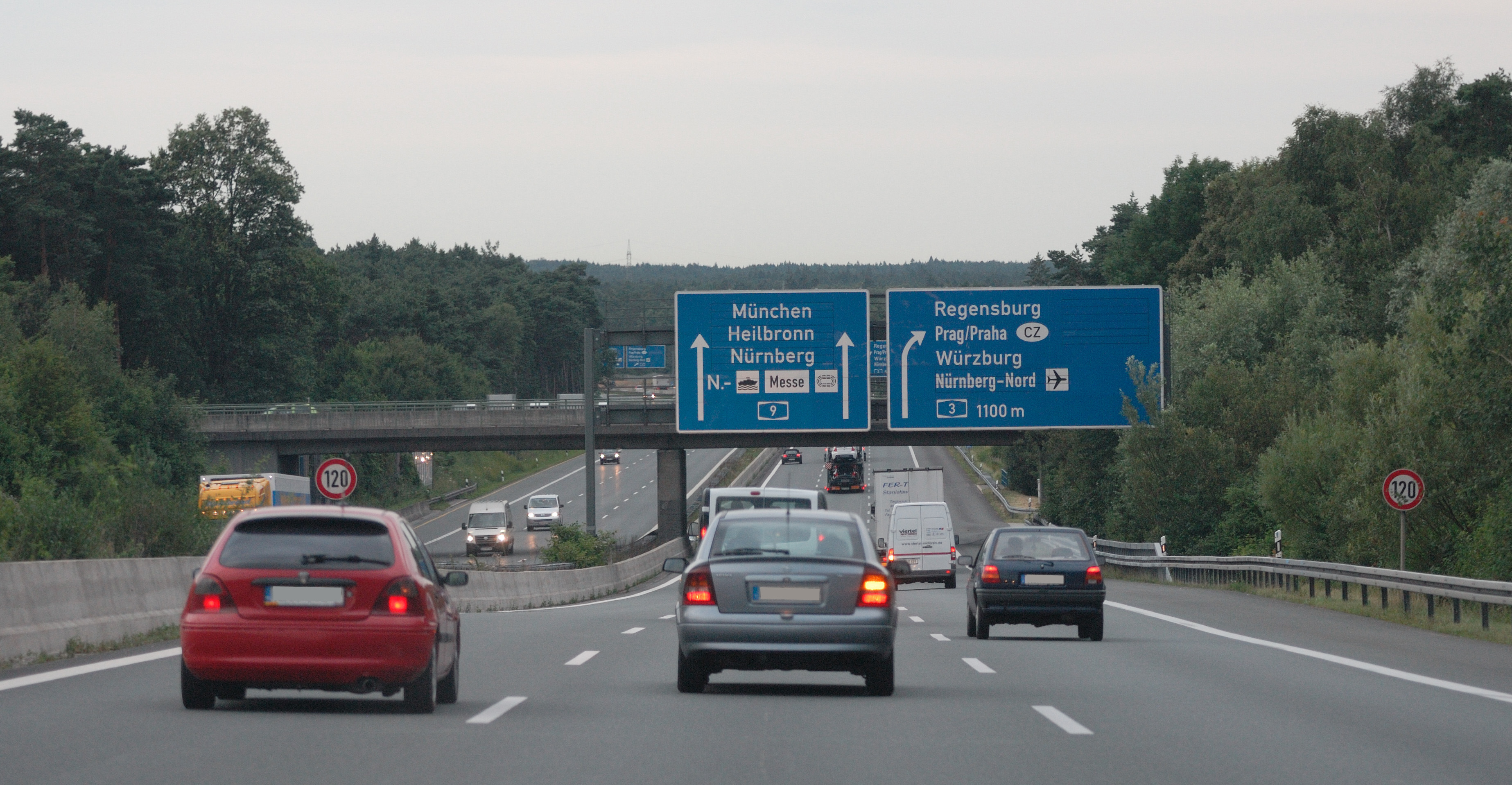 Road signs for Nuremberg interchange. Road shot from A 9.